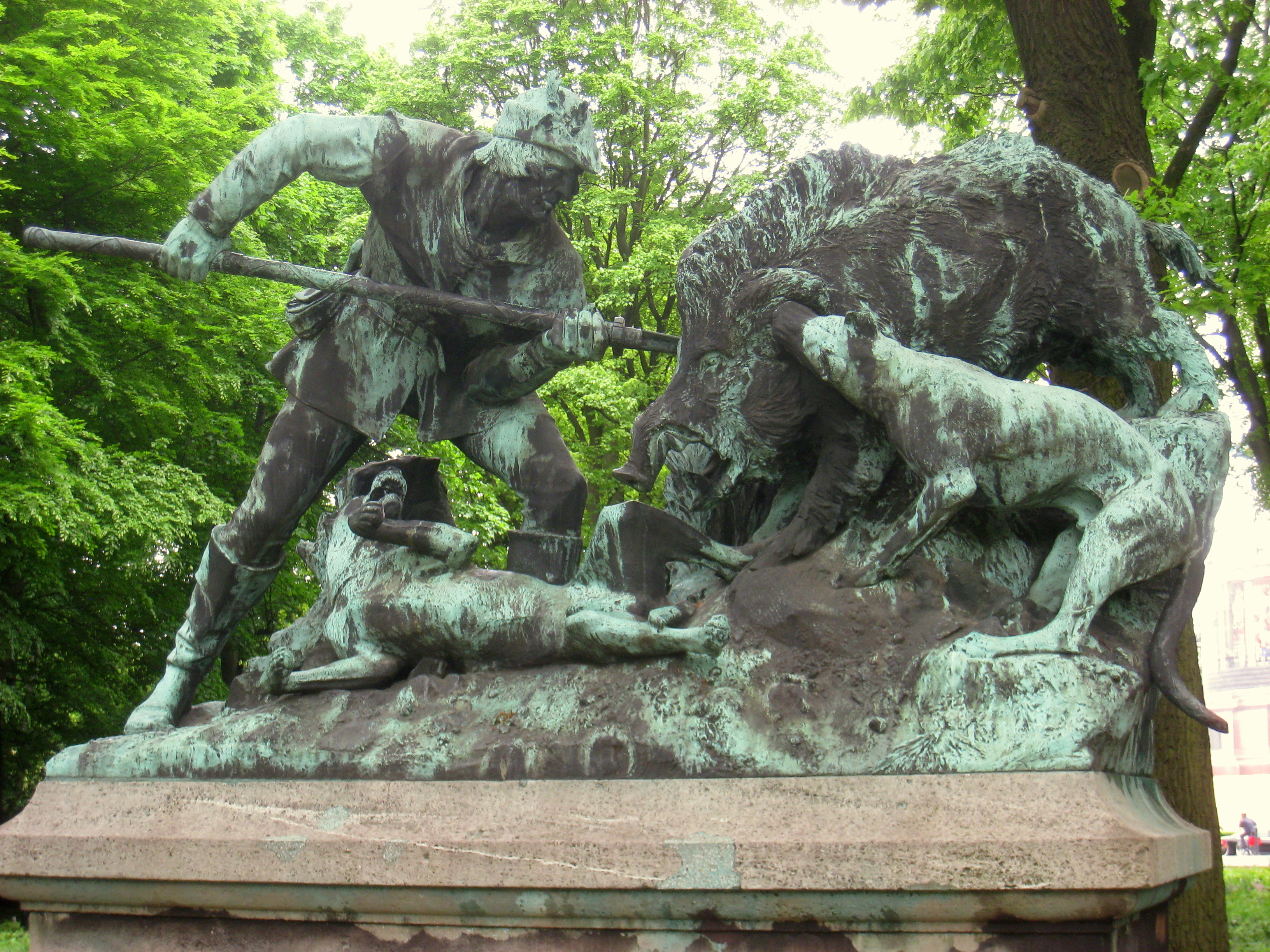 Eberjagd um 1500 by Carl Begas, Tiergarten, Berlin, Germany.